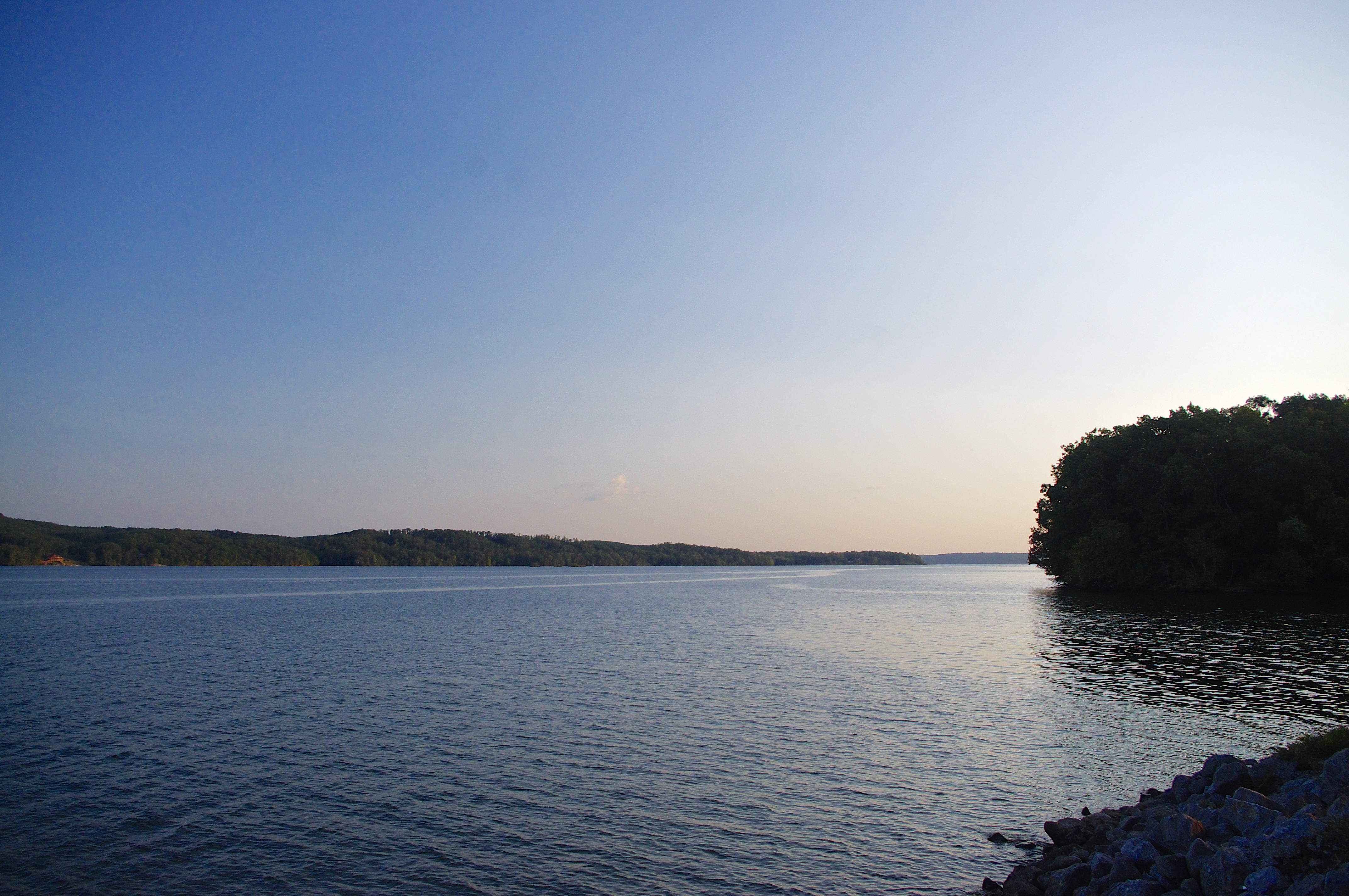 Pickwick Lake, viewed looking southwest (downstream) from Waterloo, Alabama, United States.